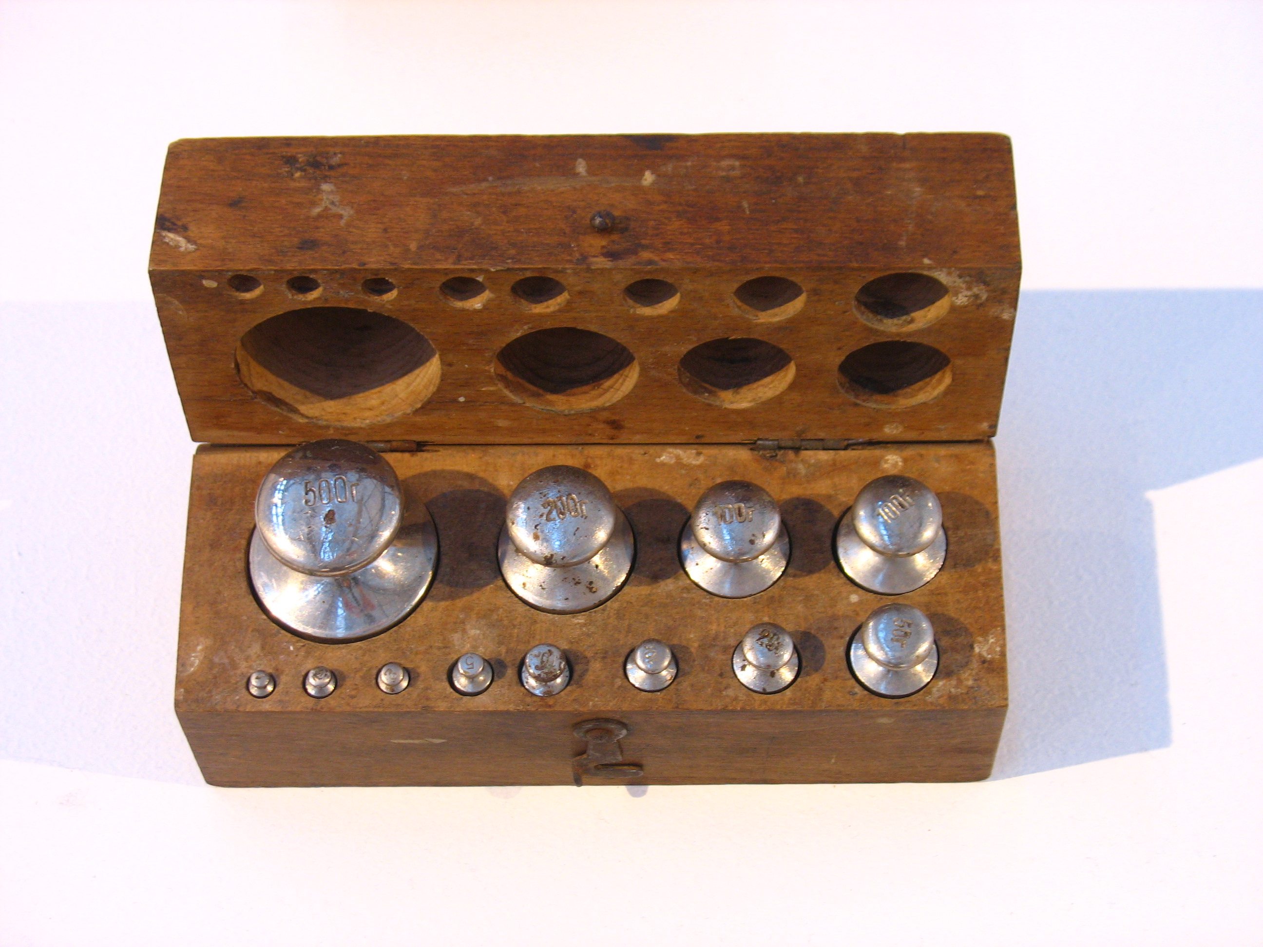 Weights in wooden case